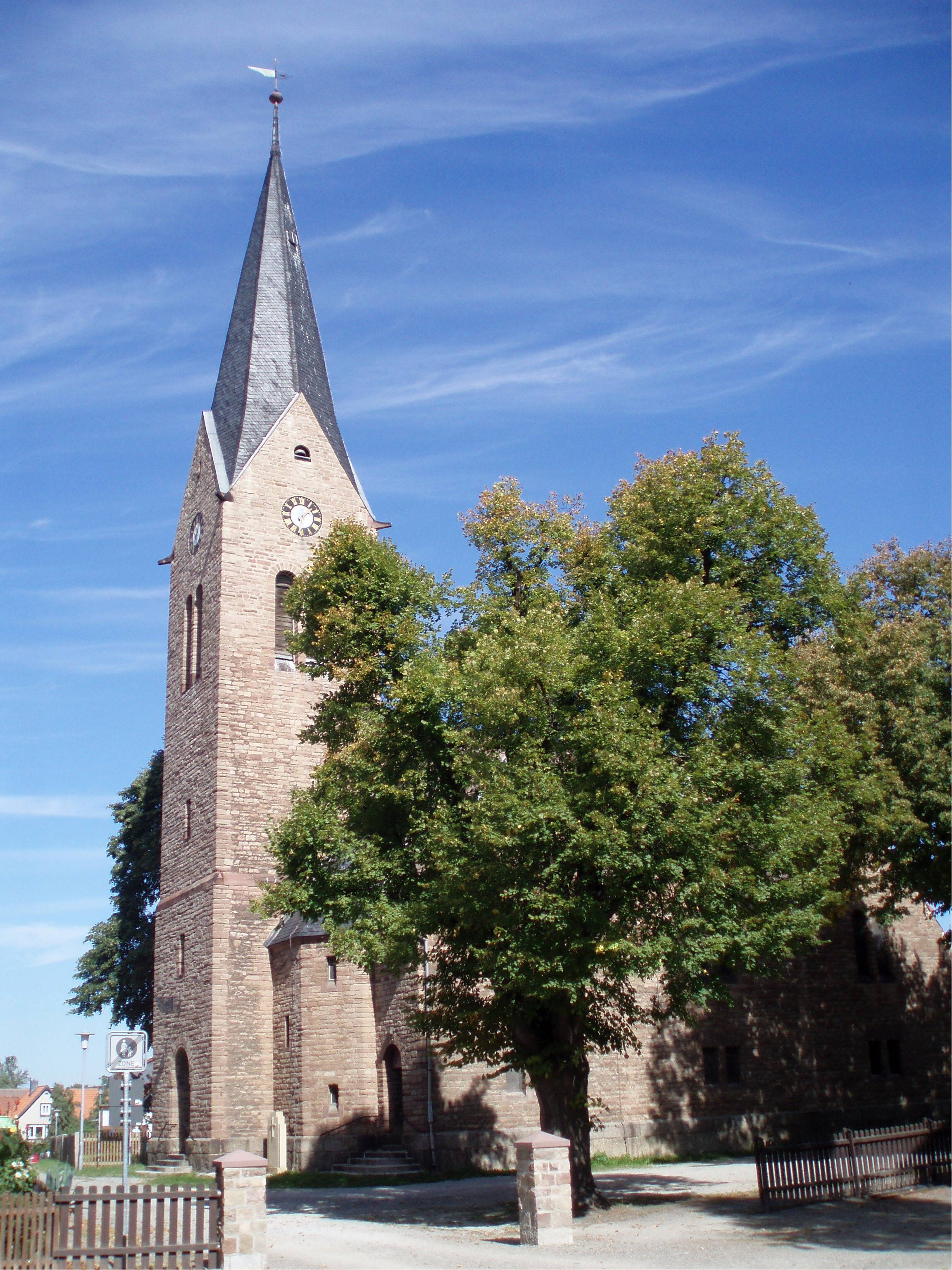 Church in Veckenstedt